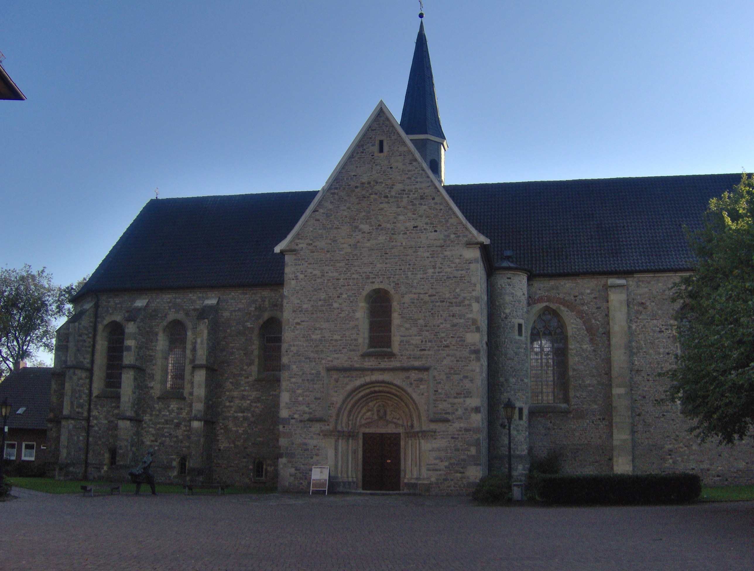 The catholic church Sankt Felizitas in Vreden in North Rhine-Westphalia, Germany